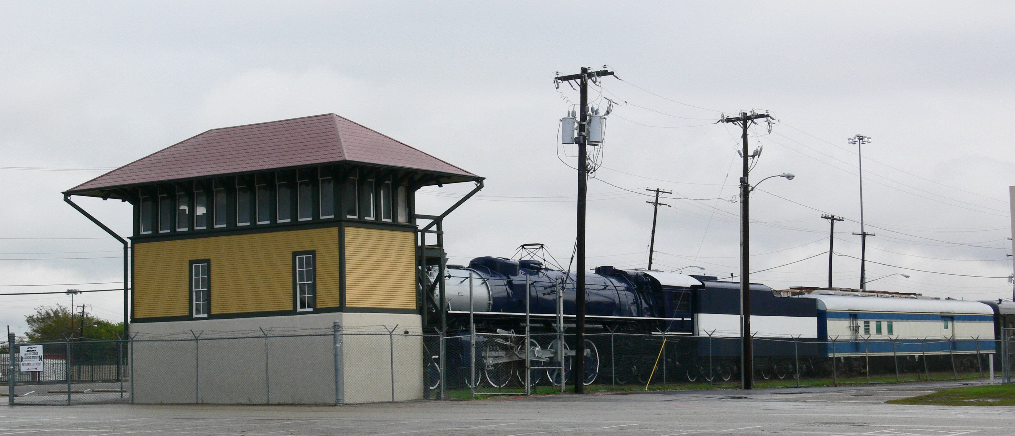 Switching tower at the Museum of the American Railroad, Fair Park, Dallas. This tower was relocated in 2012 to the museum's future location in Frisco, Texas.